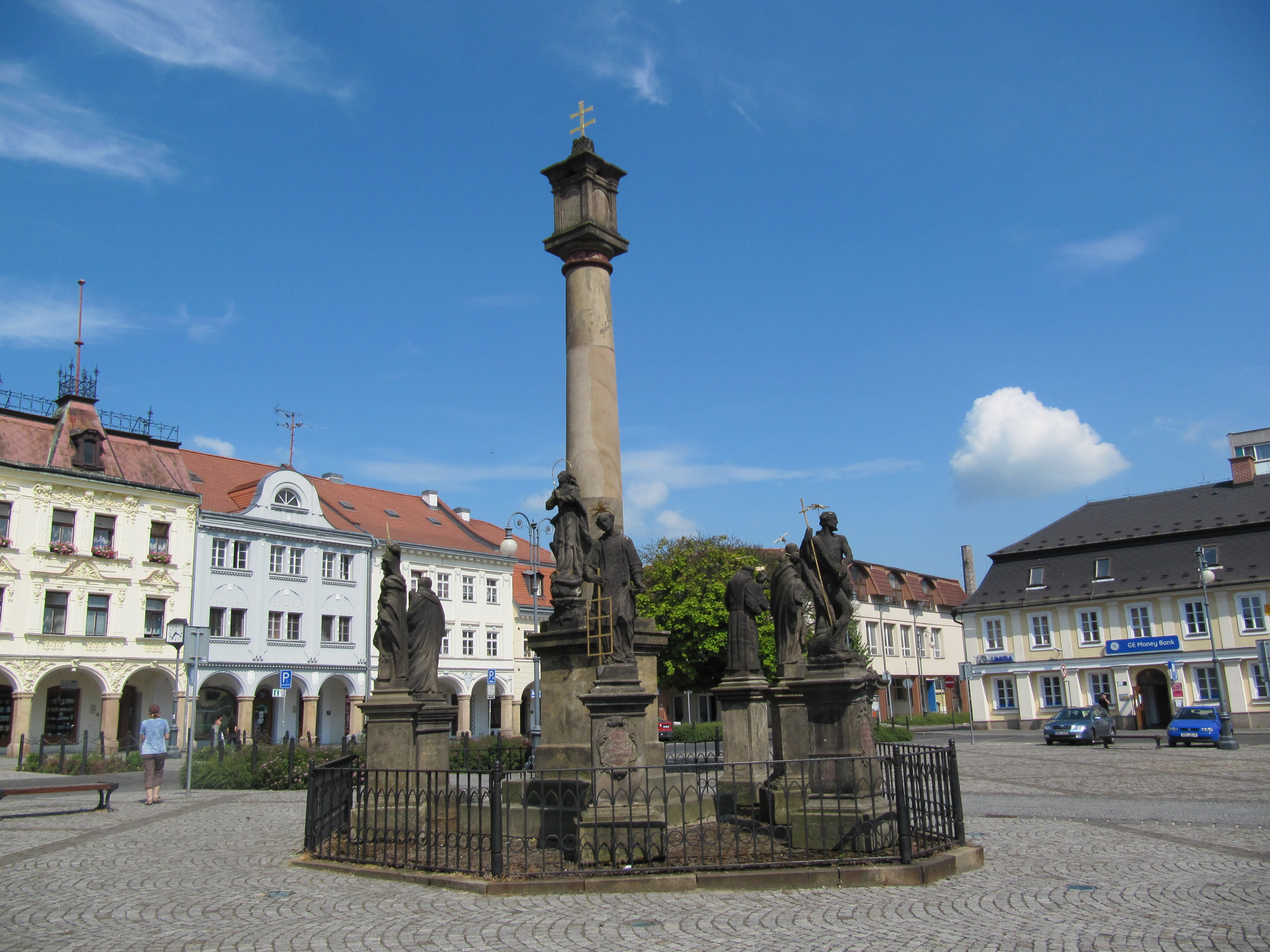 Rumburk in Děčín District, Czech Republic. Square.